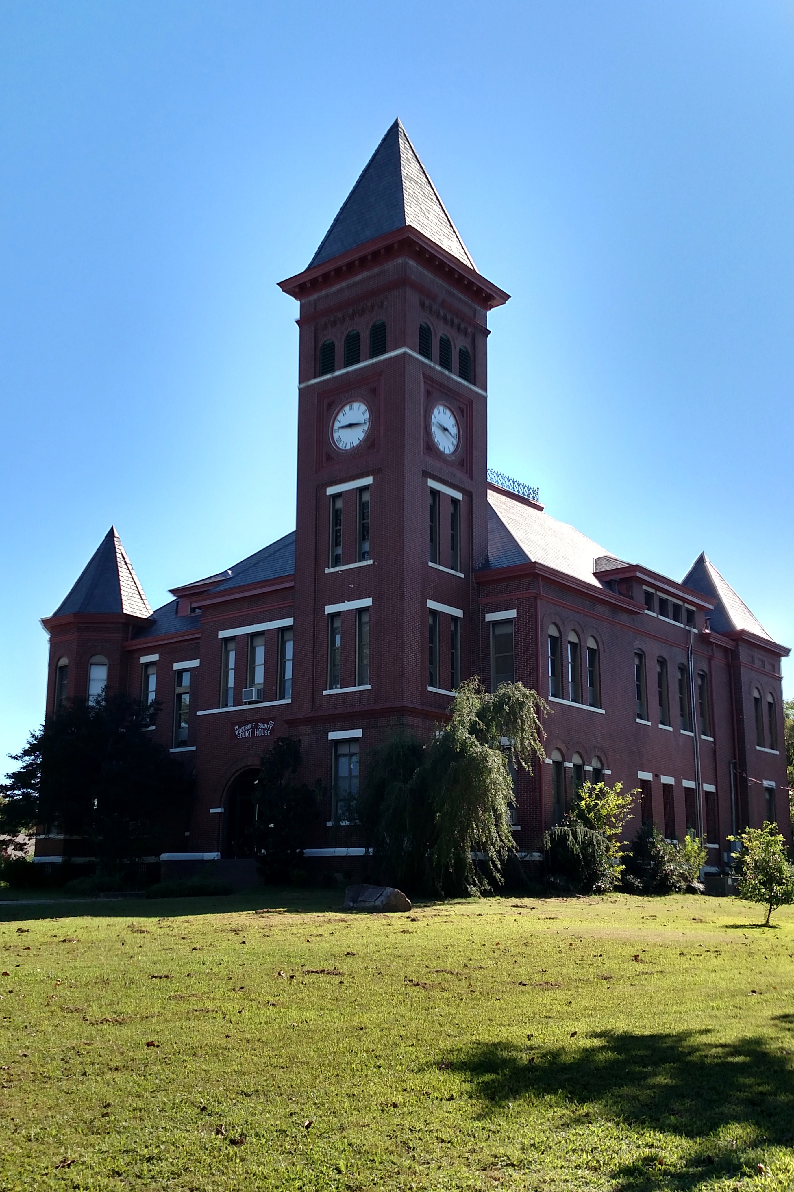 exterior